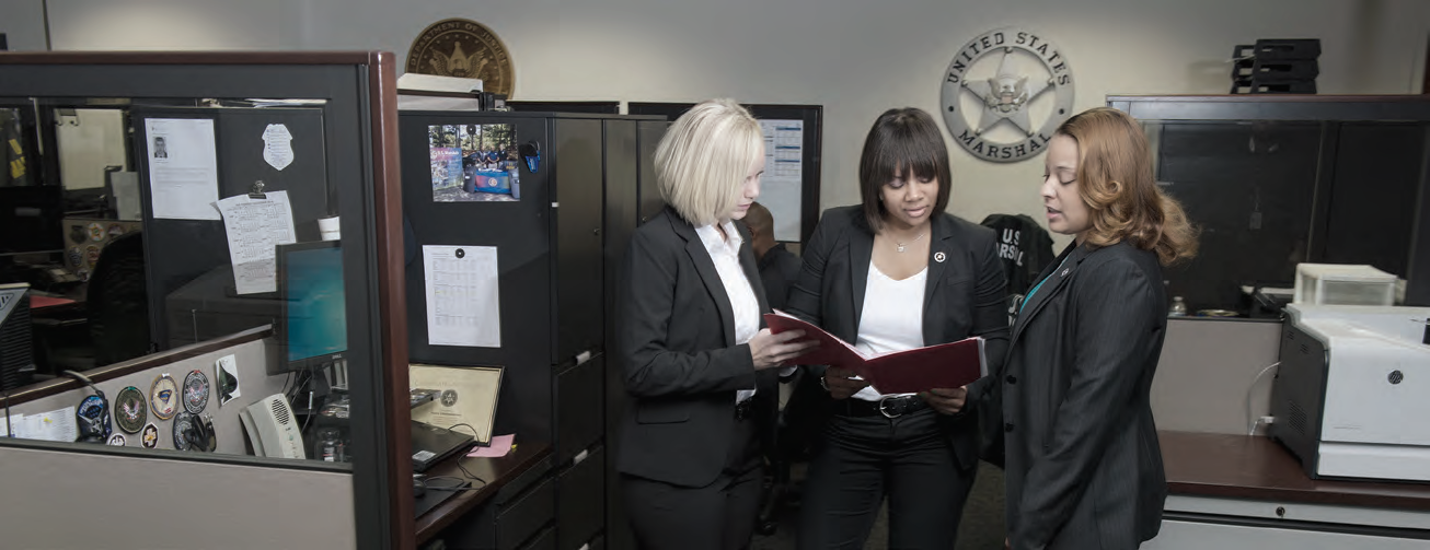 United States Marshals in office.